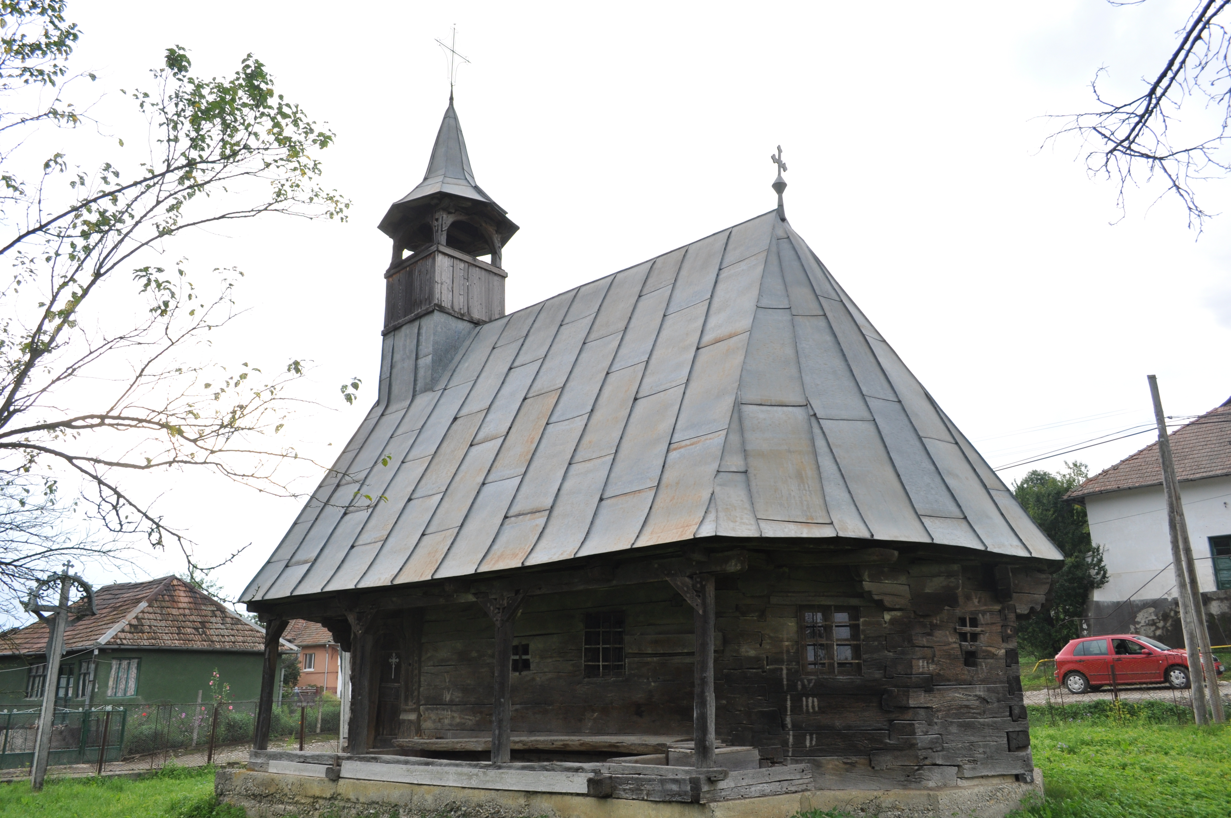 Wooden church in Strugureni, Bistrița-Năsăud countyRomână: Biserica de lemn din Strugureni